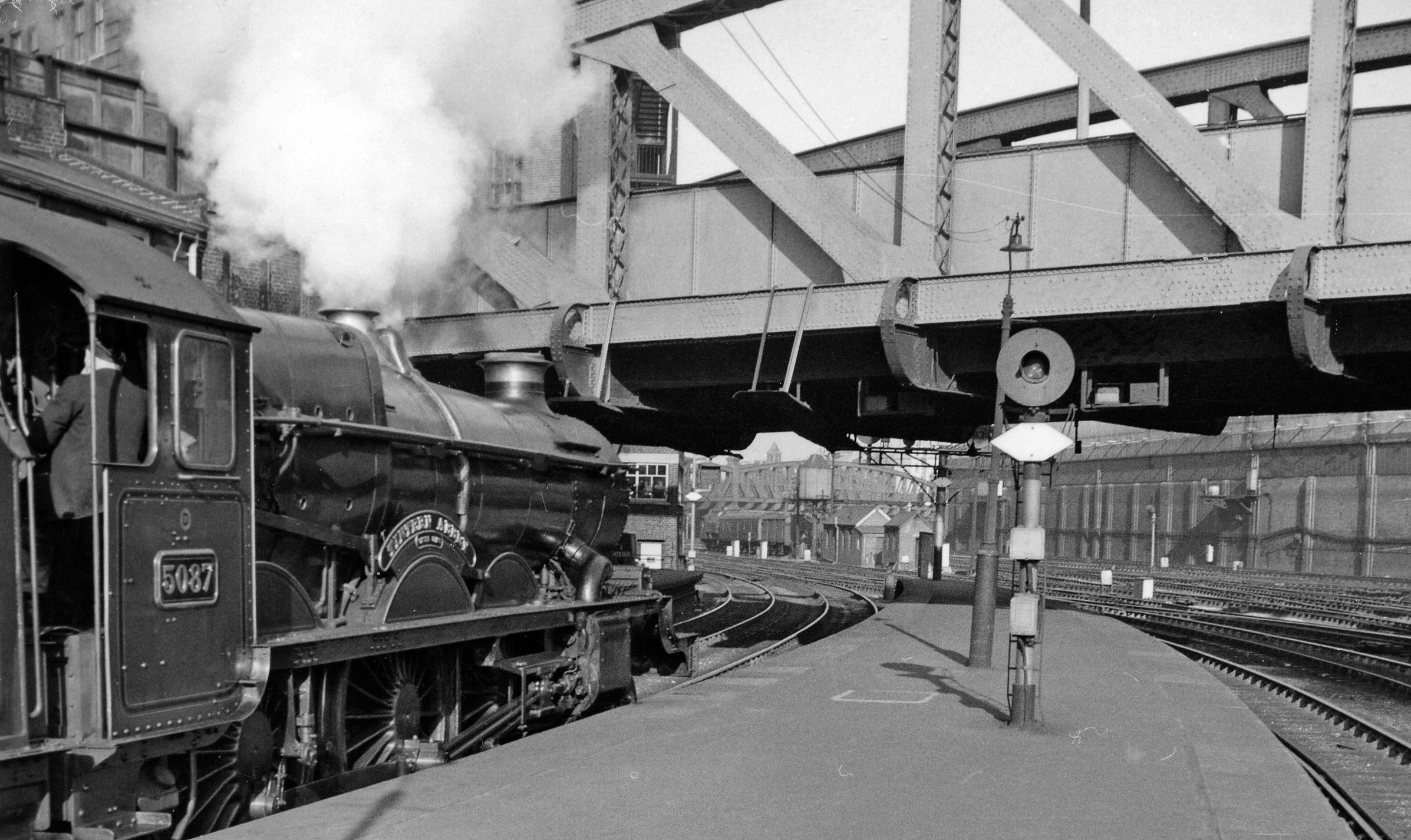 Down 'Capitals United Express' ready to leave Paddington. View westwards, towards Reading and the West, also Banbury and the North; ex-GWR London terminus. Just above is Bishop's Bridge; beyond and over the Up main and local lines and the Underground (Hammersmith & City) lines is the great Paddington Goods Station. The express will leave at 08.55, with 'Castle' 4-6-0 No. 5087 'Tintern Abbey' (rebuilt 11/40 from 'Star' No. 4067 of 1/23, withdrawn 8/63). The train will arrive at Swansea at 13.25 (see SS6593 : Swansea High Street Station, with a 'Castle' and a 'Grange' 4-6-0), reverse and continue to Neyland (arr. 16.00) and Milford Haven (arr. 16.15), the portions dividing at Johnston.